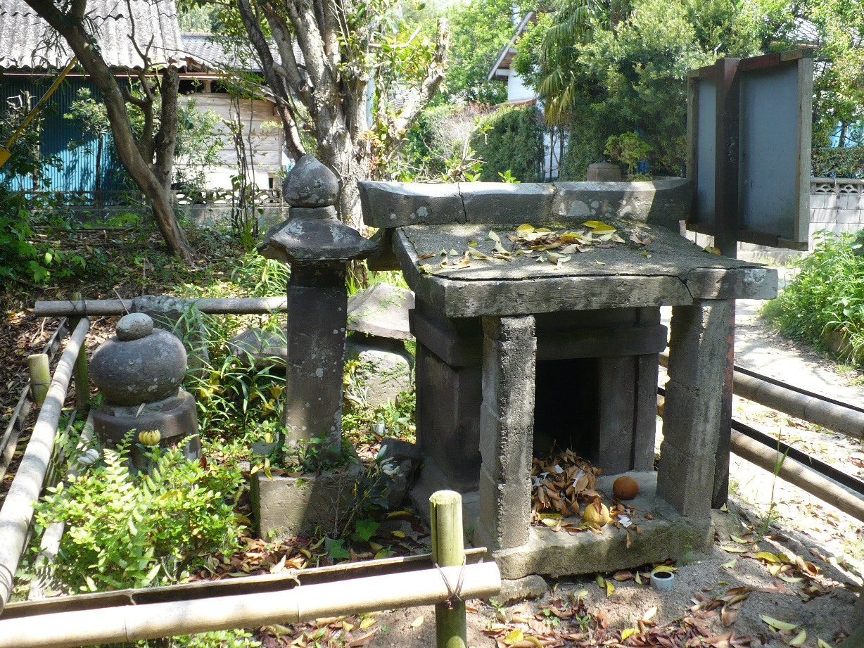 The tomb of Mizuguchi Yukie, who was the founder of Nakatsuno drain, Aira town Kagoshima prefecture, Japan